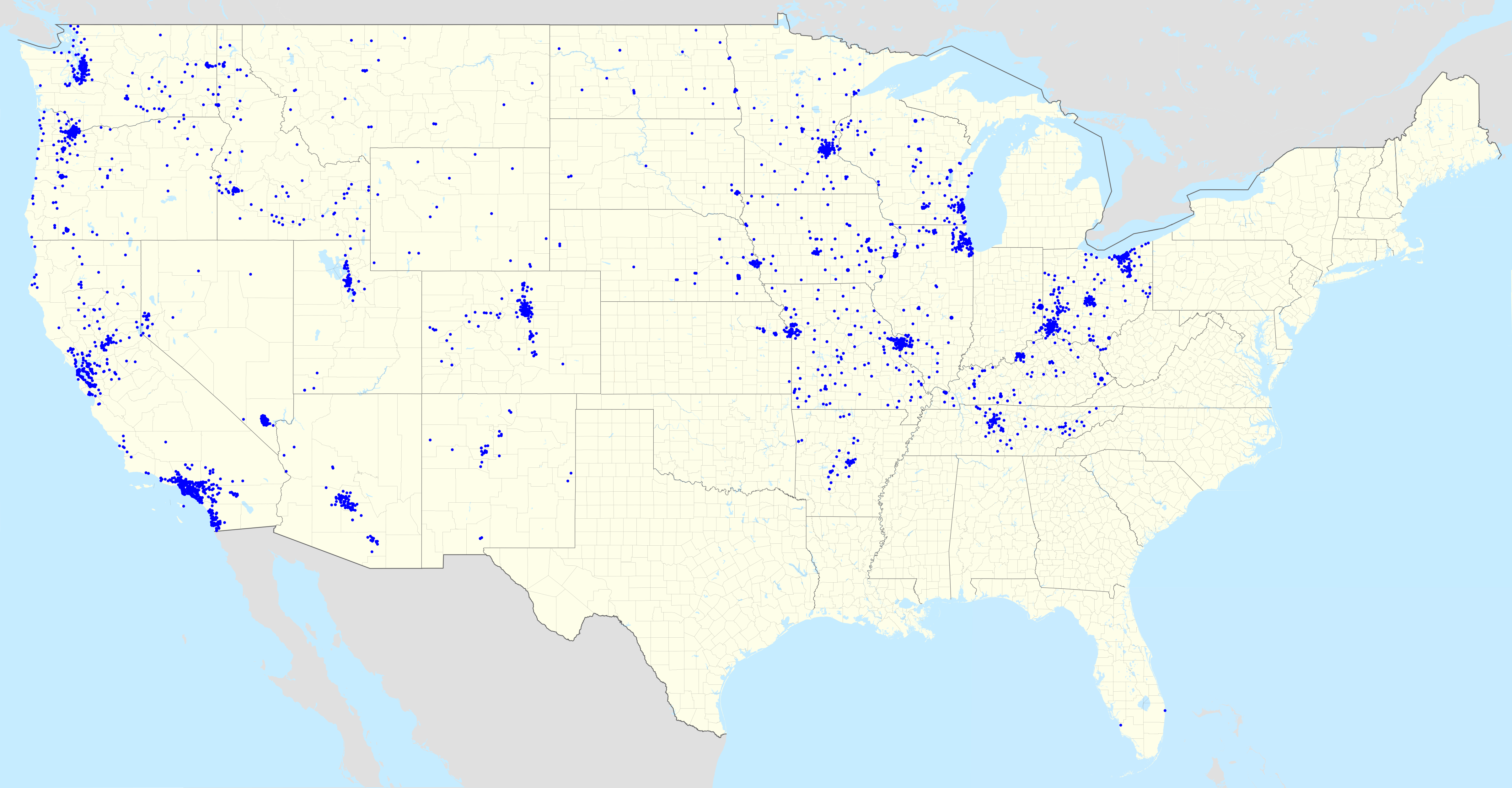 Map of U.S. Bank footprint in the United States. Data extracted from FDIC Bankfind in March 2013.